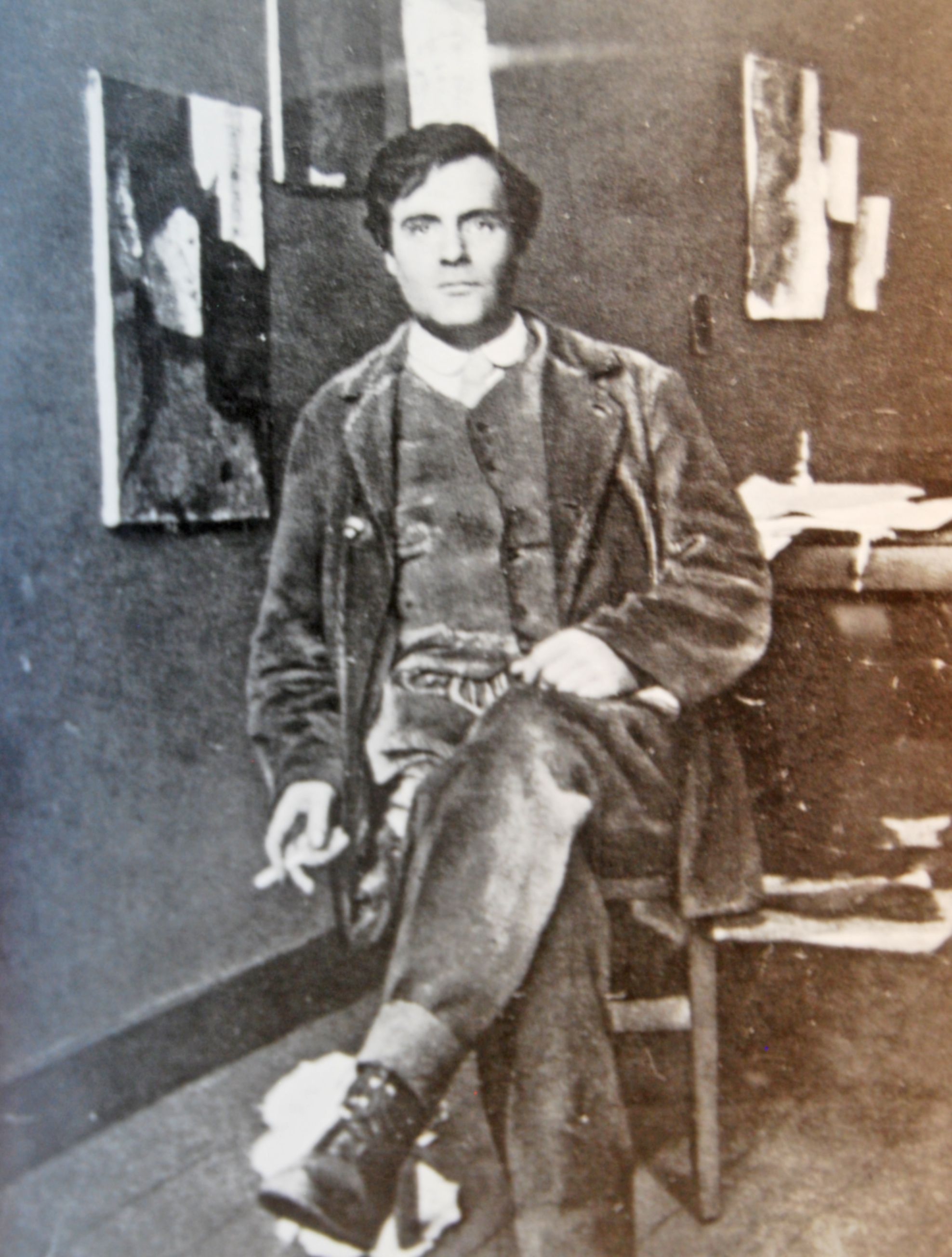 Amedeo Modigliani in his studio rue de la Grande-Chaumière, at Montparnasse. Beatrice Hastings and Raimond portraits can be seen.